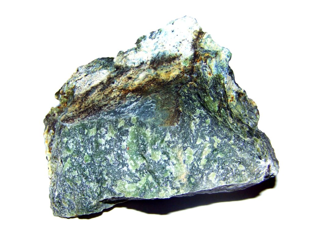 Nephrite after serpentinite from Jordanów Śląski (Gogolow-Jordanow serpentinite massif), Lower Silesia Poland.